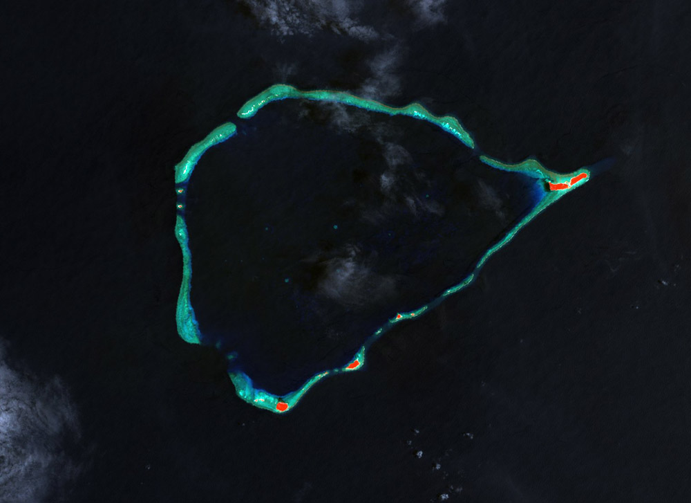 Landsat 7 image of Nomwin Atoll, Chuuk State, Federated States of Micronesia